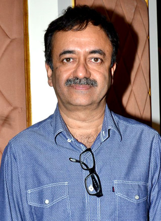 Aamir Khan & Rajkumar Hirani discuss 'PK' success